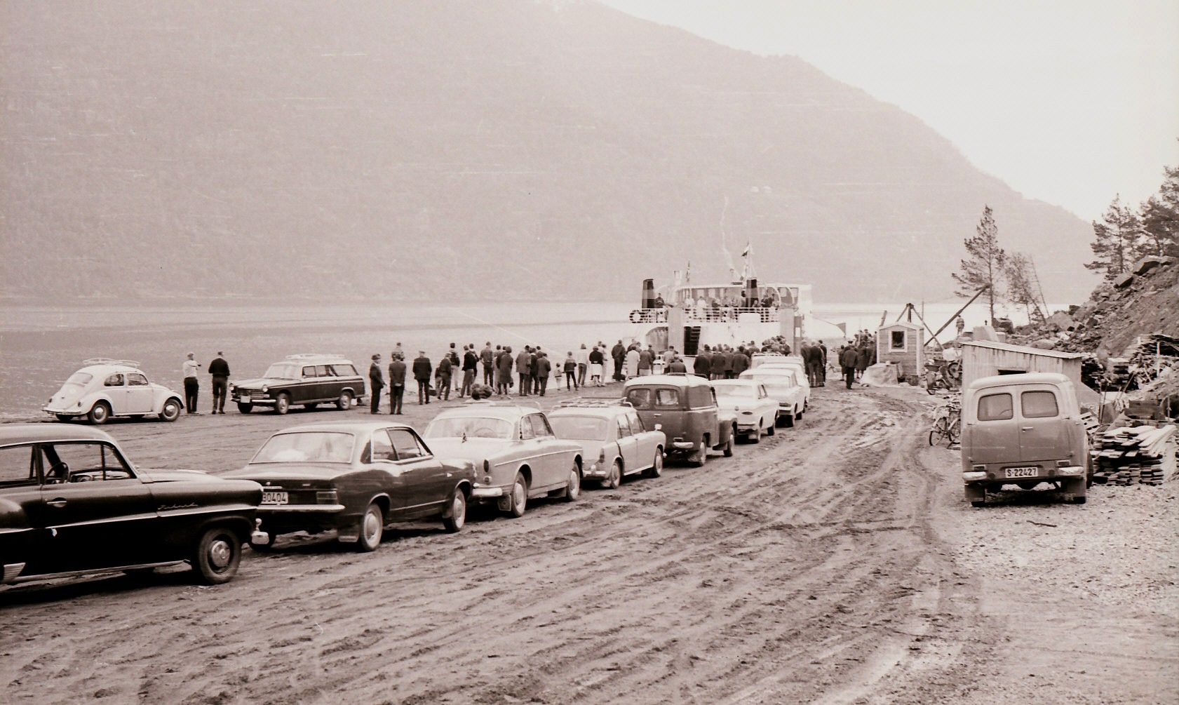 First ferry at Anda in Gloppen, Norway.